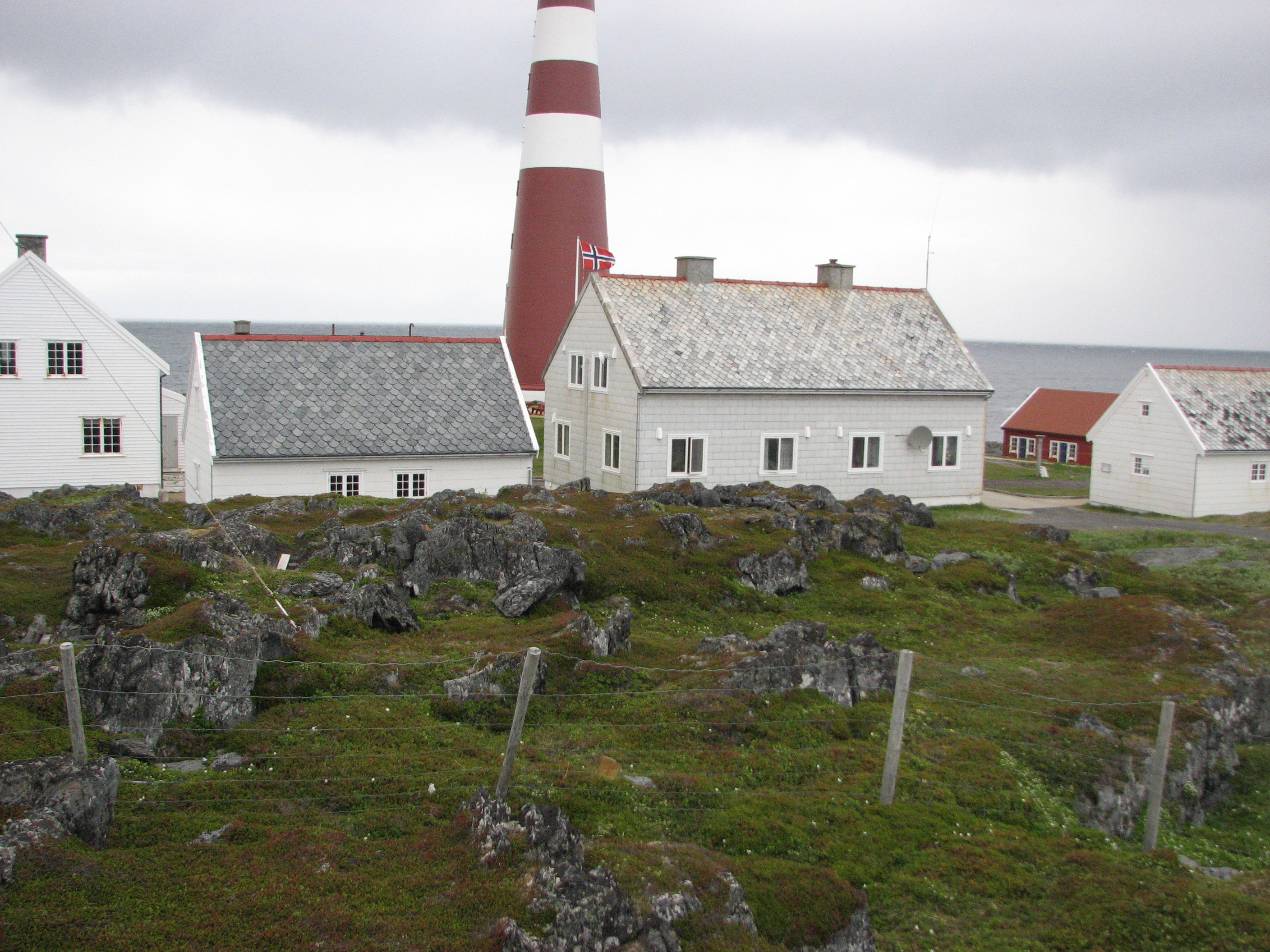 Slettnes lighthouse, near Gamvik, Norway